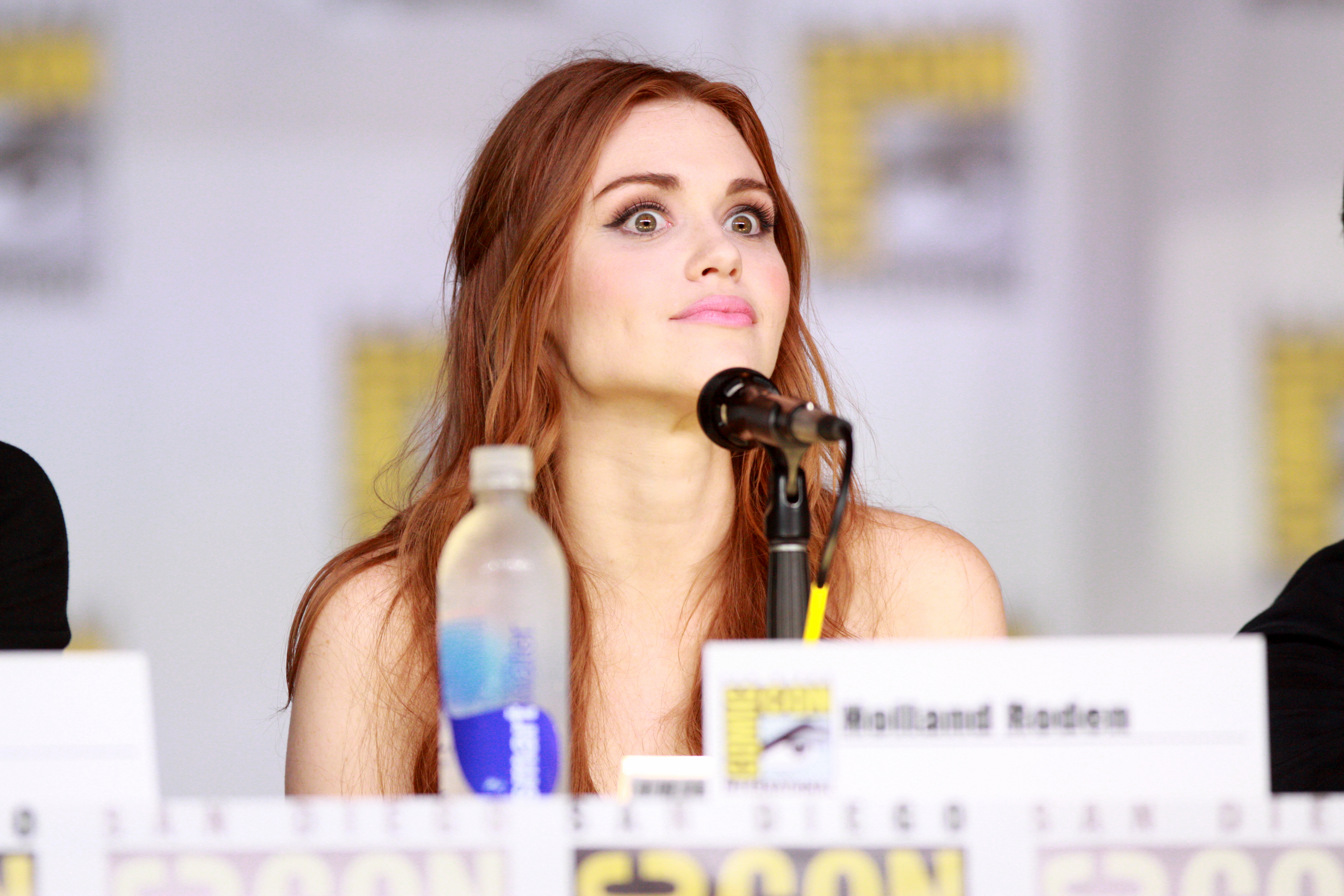 Holland Roden speaking at the 2013 San Diego Comic Con International, for "Teen Wolf", at the San Diego Convention Center in San Diego, California.